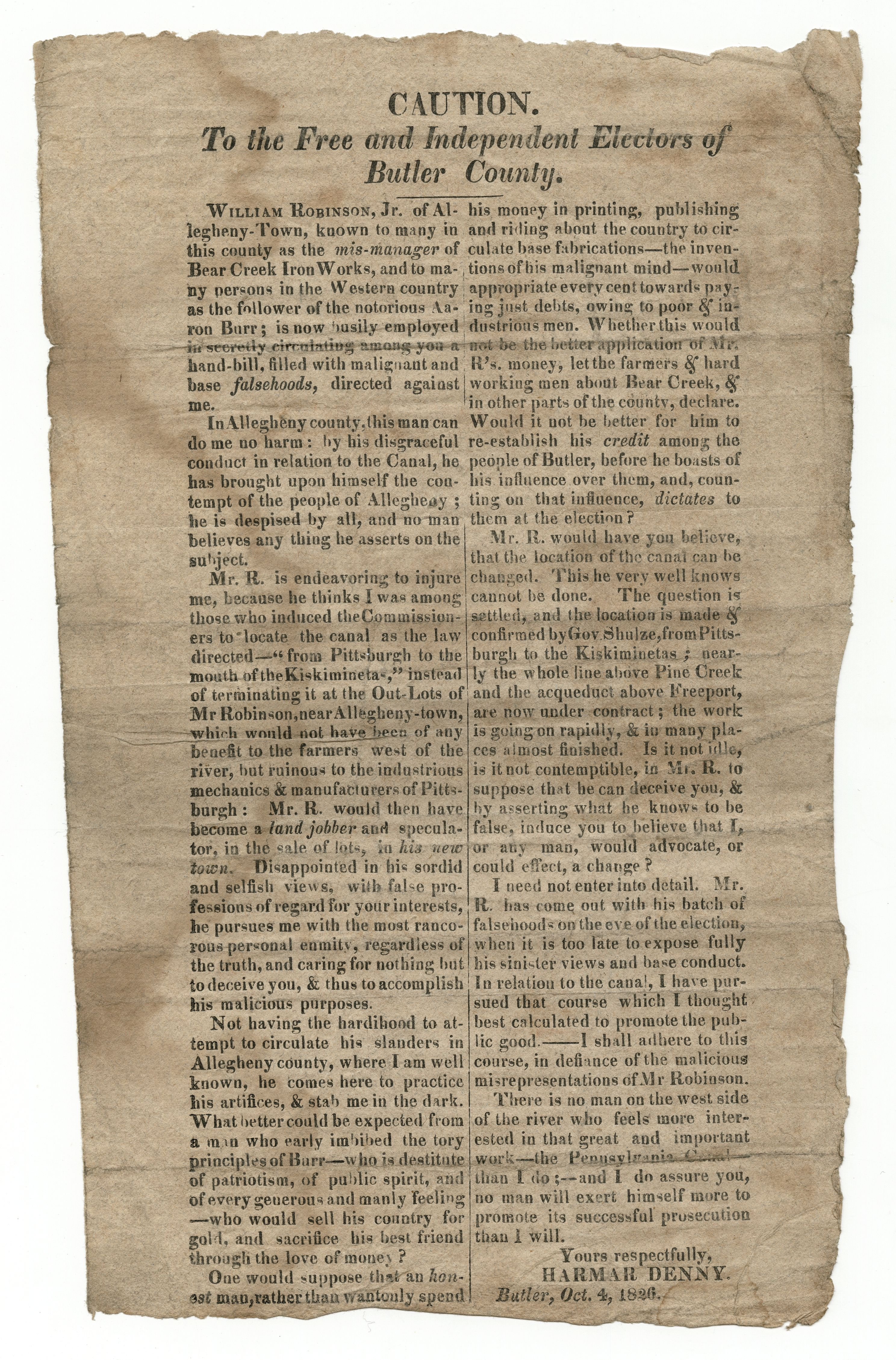 Harmar Denny letter regarding William Robinson, Jr., the Pennsylvania Canal, and Robinson, Jr.'s support of Aaron Burr, 1826